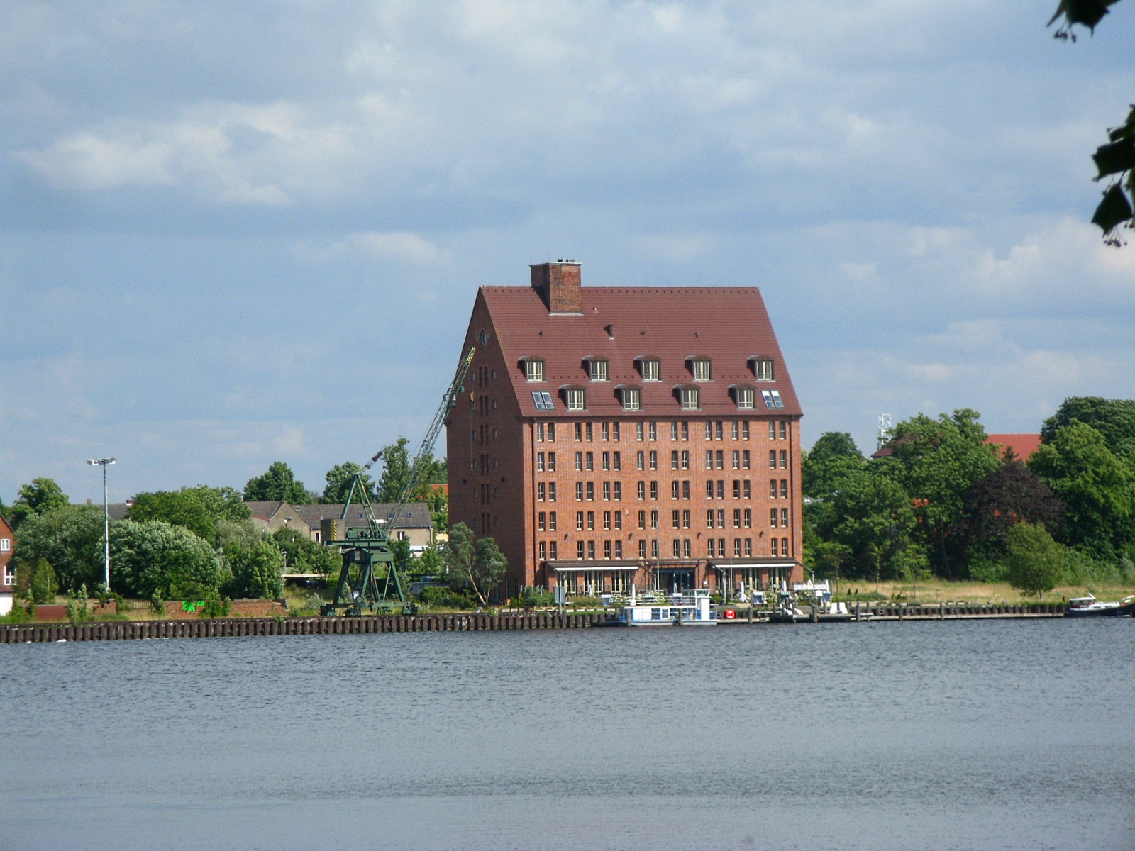 Former harbour with Warehouse (today a hotel) at lake Ziegelsee (inner lake), Schwerin, Germany